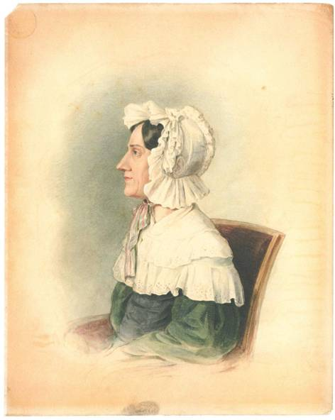 Portrait of Nanette Streicher